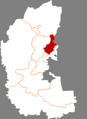 Location of Sartu District in Daqing City, China